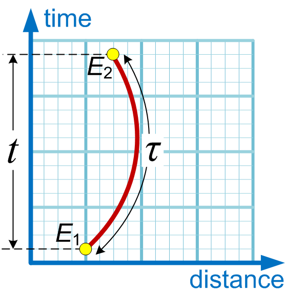 A spacetime diagram to illustrate the difference between proper time and coordinate time.